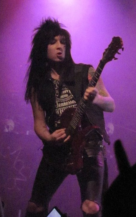 Concert of the band Black Veil Brides on January 25, 2013 in New York. In the picture: Jake Pitts